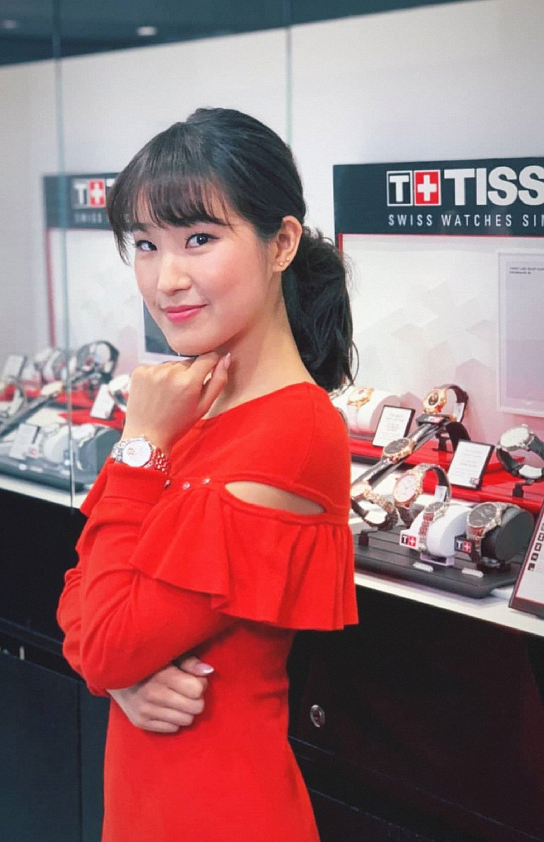 After an interview with Tissot CEO, François Thiébaud